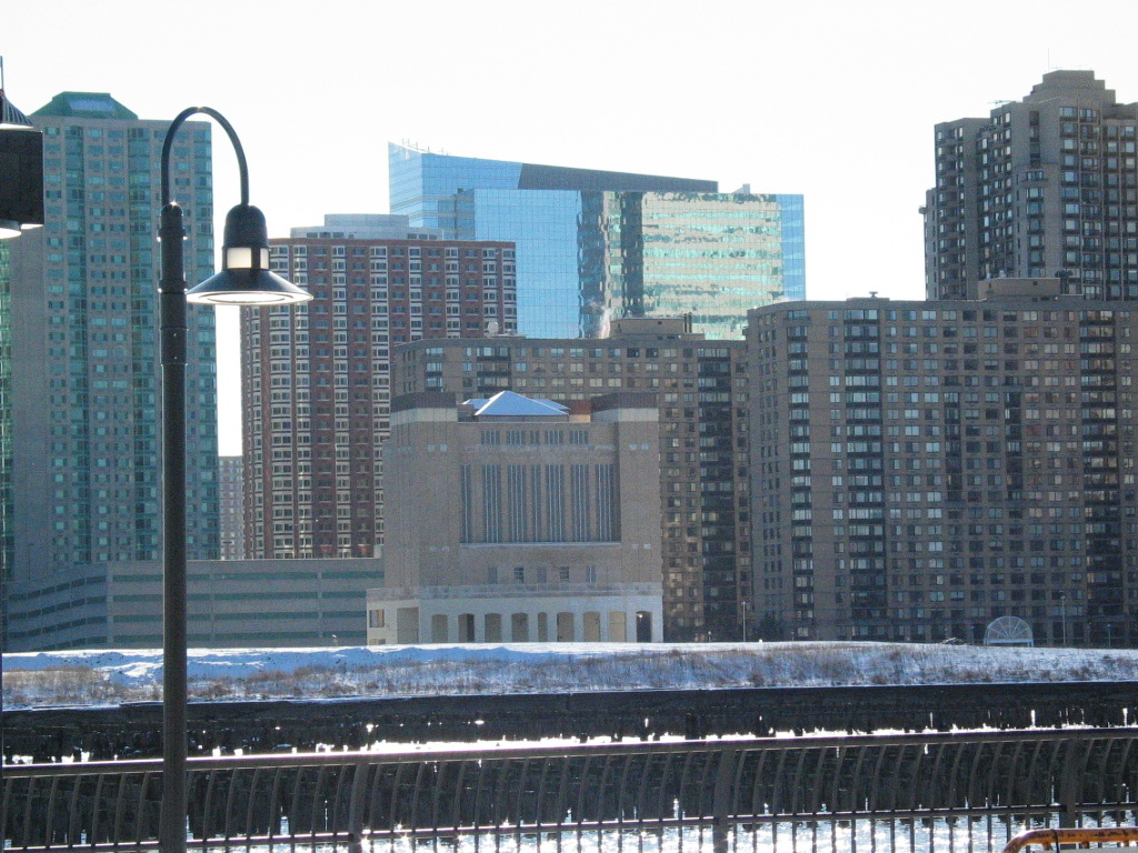 Viewing the Newport section Jersey City from Hoboken, NJ